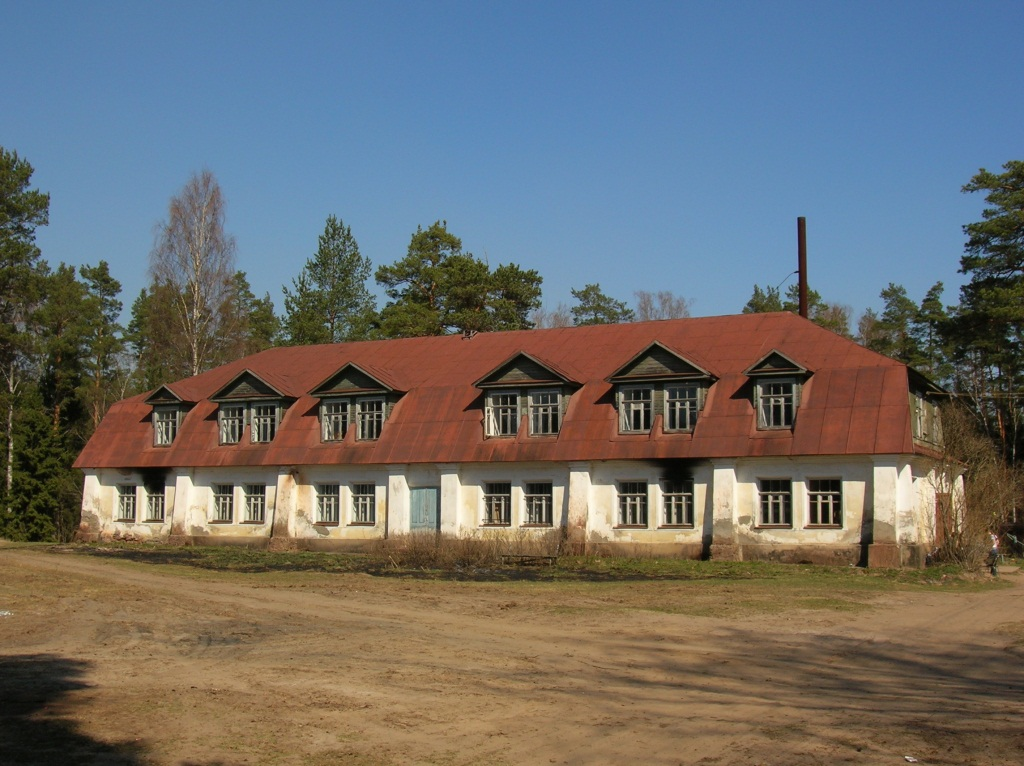 Gelezo 1